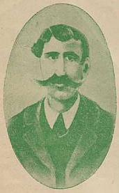 Portrait of IMARO member Kolyo Rashaikov from Visheni, today Vissinia, Greece